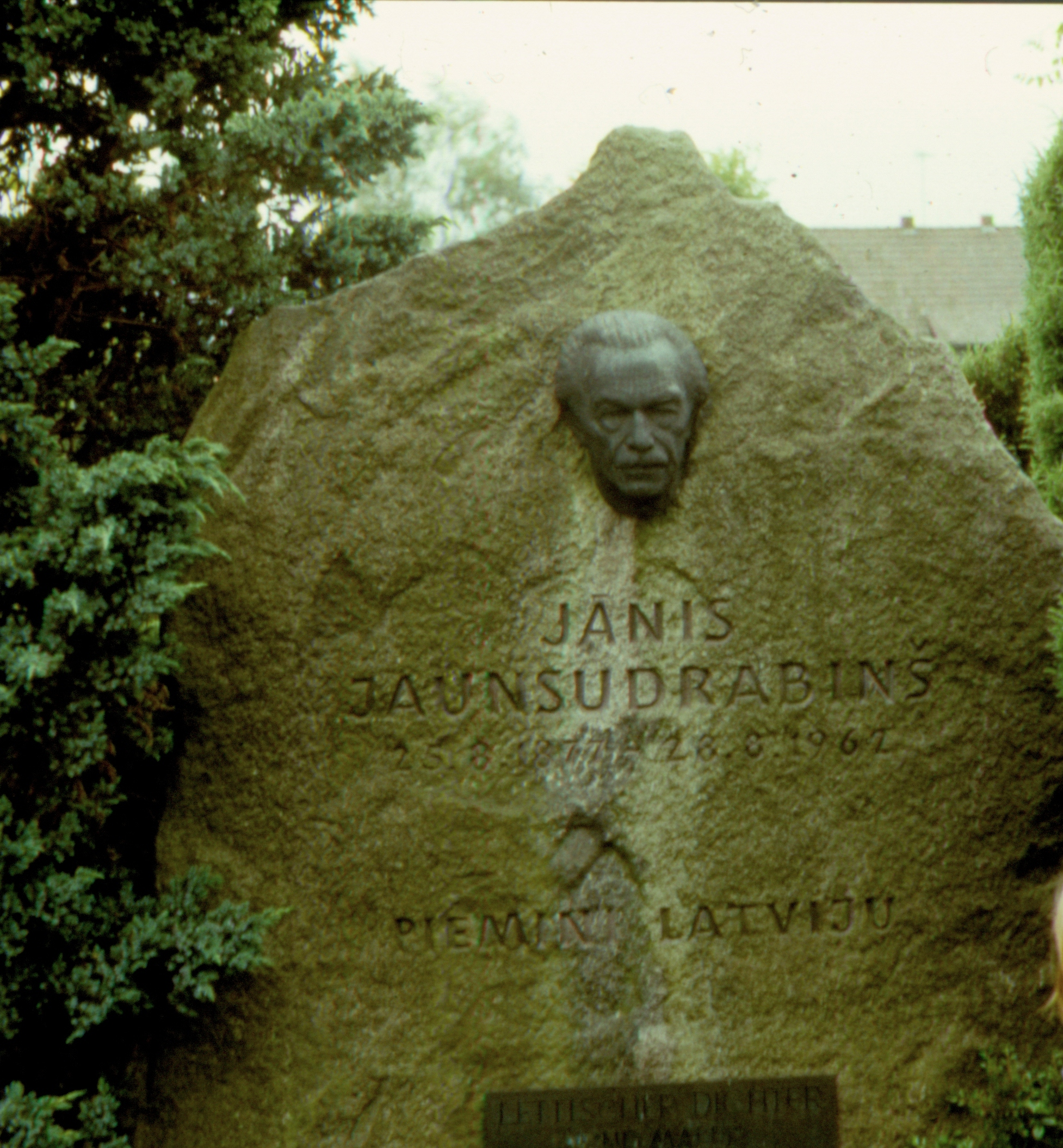 Jaunsudrabins's tomb at Körbecke